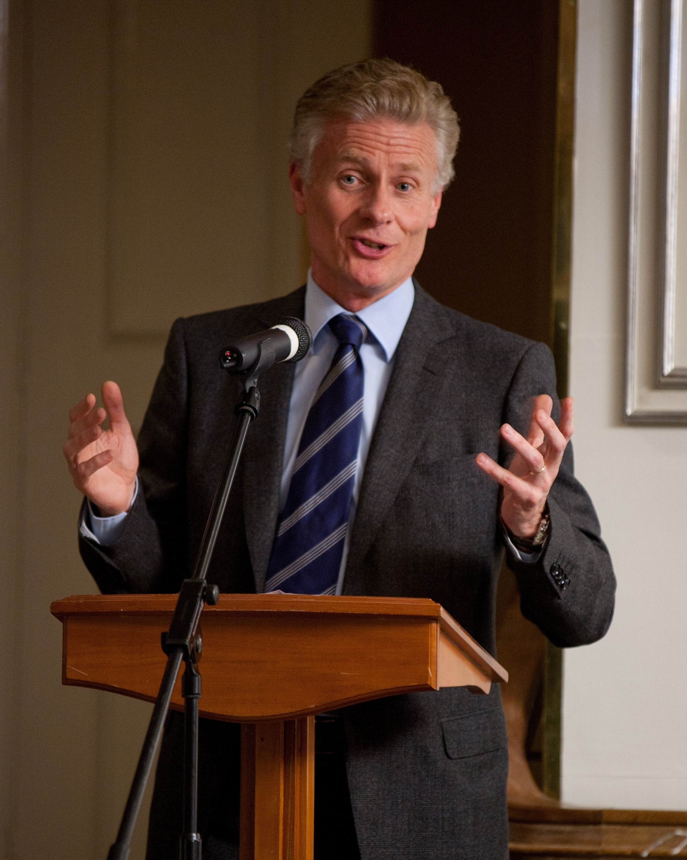 Paul Deighton, guest speaker at the Moet Hennessy Financial Times Club dinner, London, 2011